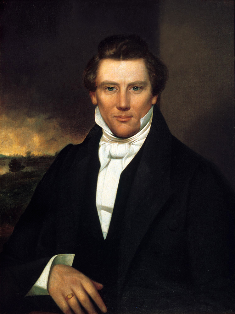 Painting by an unknown painter, circa 1842. The original is owned by the Community of Christ archives. It is on display at the Community of Christ headquarters in Independence Missouri, where its provenance is explained. The painting was originally in the possession of Joseph Smith III (died 1914), who is recorded as commenting on the painting. The c. 1842 date is given by the Community of Christ, the painting's owner. Māori: He waituhi e whakaahua ana i a Joseph Smith. E waituhia ana tēnei waituhi e he kaiwaituhi tautangata i te tau 1842, pea.